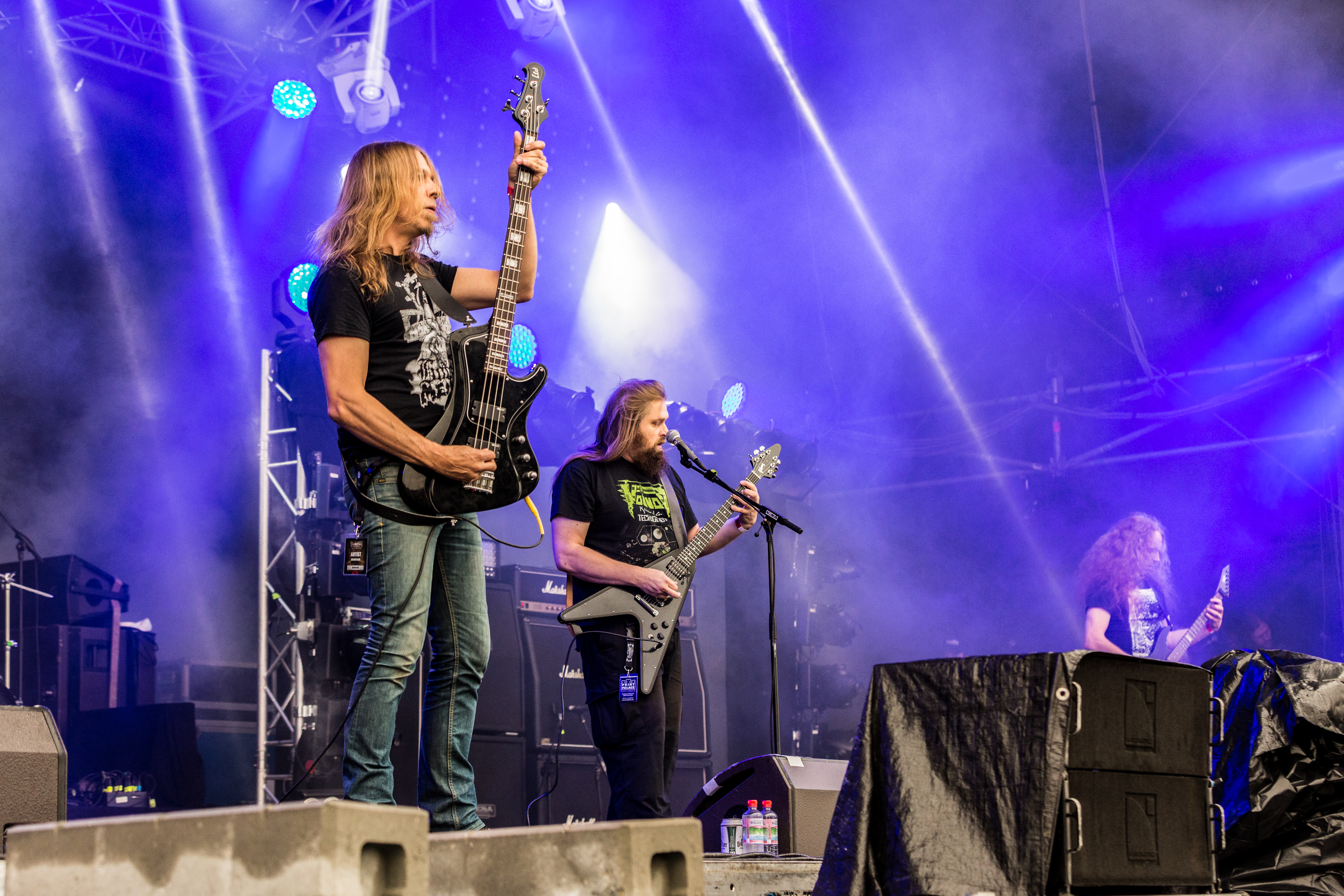 The Finnish technical death metalband Demilich at the Party.San Metal Open Air 2017 in Obermehler-Schlotheim/Germany.